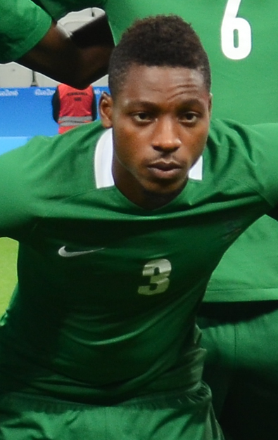 São Paulo - Colômbia vence a Nigéria por 2x0 na Arena Corinthians (Rovena Rosa/Agência Brasil)